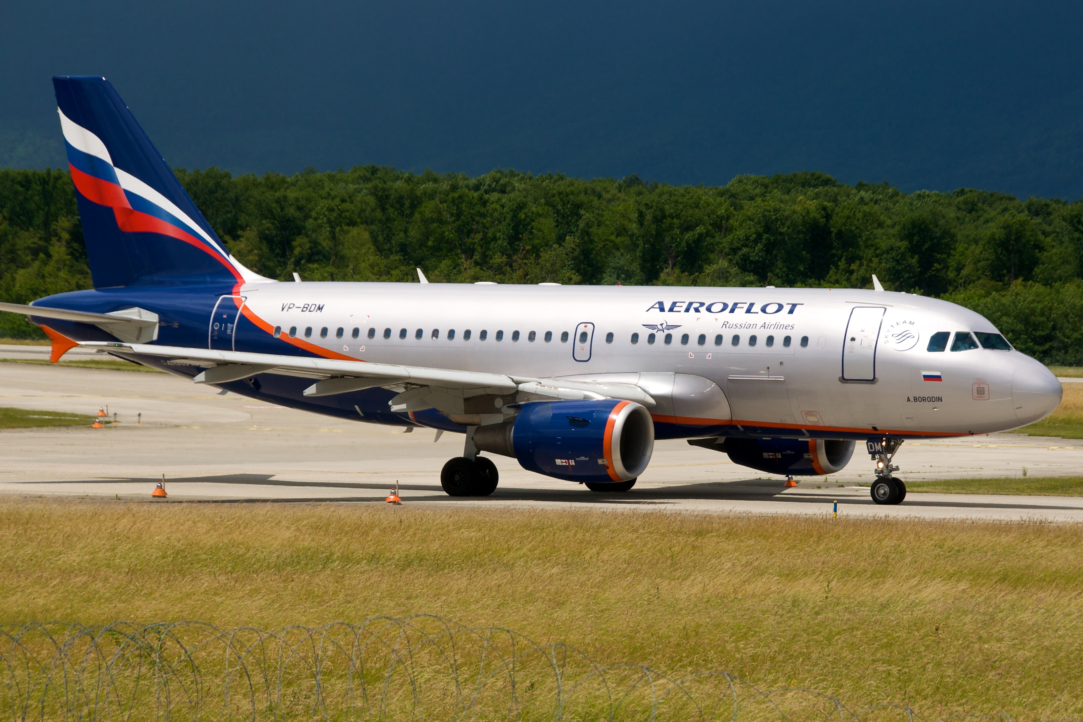 Aeroflot A319 VP-BDM in Geneva International Airport.